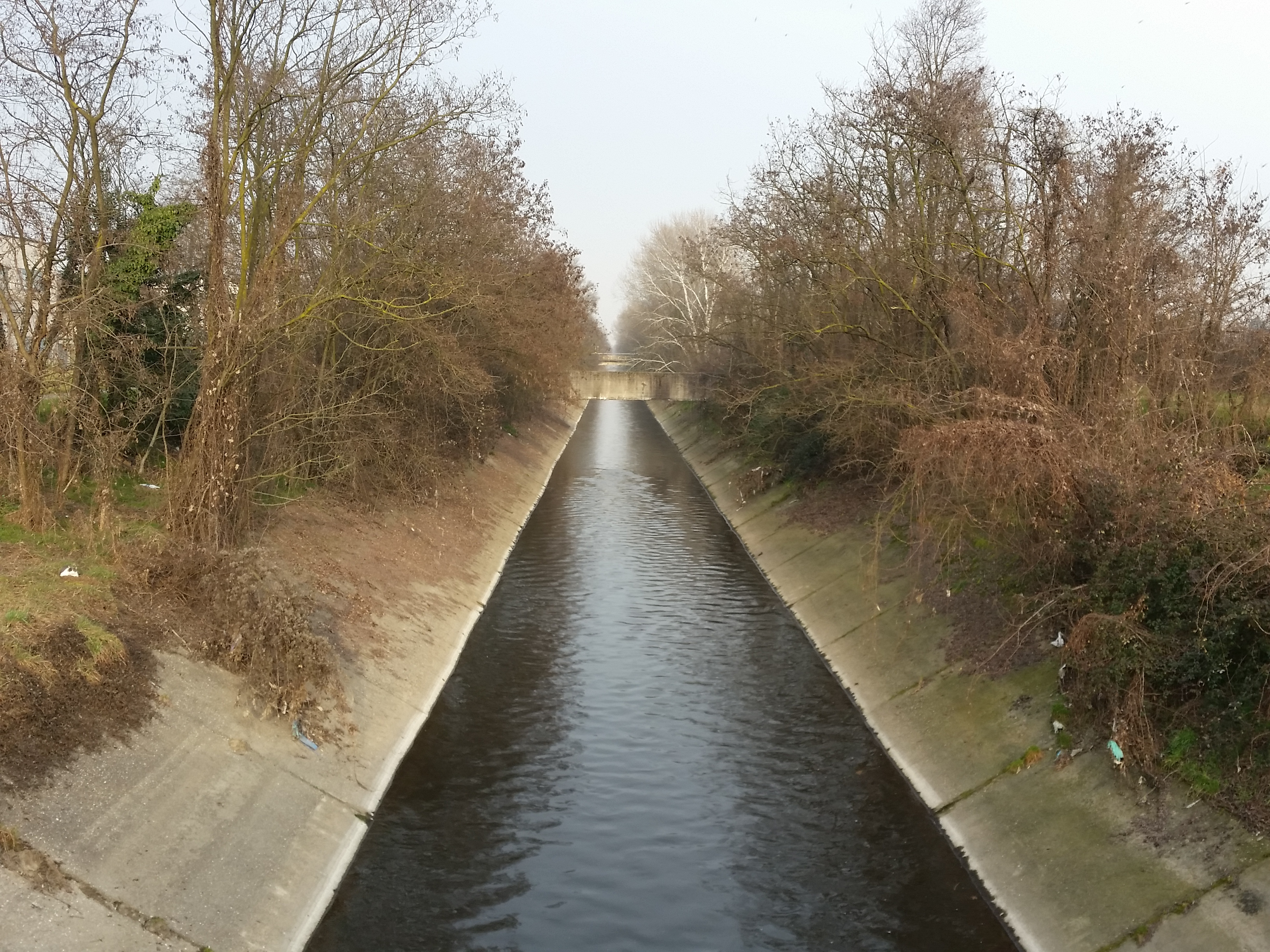 Canal under the Via Don Severino Fracassi, Bareggio (viewing direction northeast)